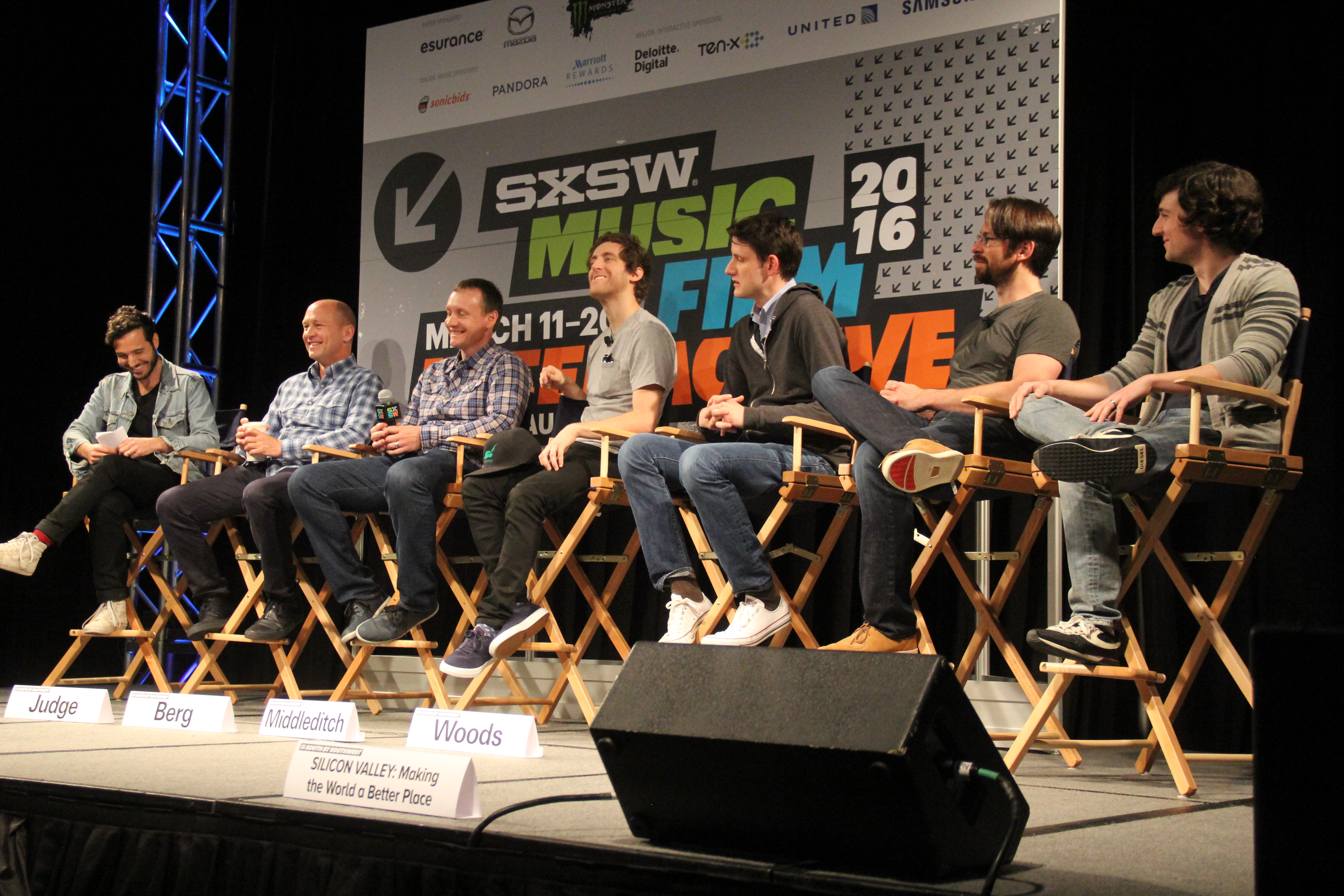 "SILICON VALLEY: Making the World a Better Place", a panel starring the cast and creators of Silicon Valley (TV series). From left to right, pictured is Steven Leckart, show creator Mike Judge, executive producer Alec Berg, Thomas Middleditch (plays Richard Hendricks), Zach Woods (plays Donald "Jared" Dunn), Martin Starr (plays Bertram Gilfoyle), and Josh Brener (plays Nelson "Big Head" Bighetti). Taken at SXSW 2016.